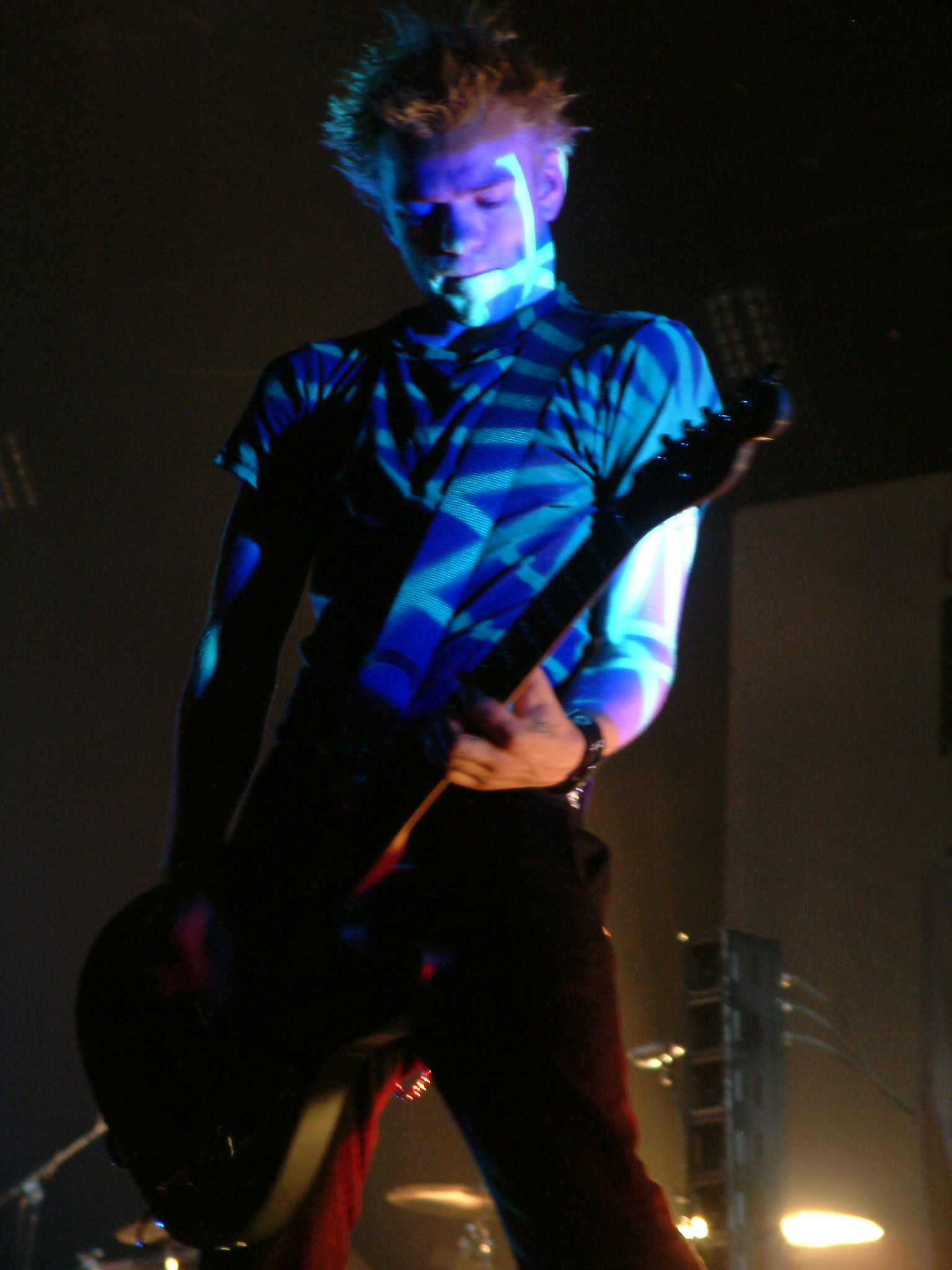 Deryck Whibley at the Ottowa Bluesfest.